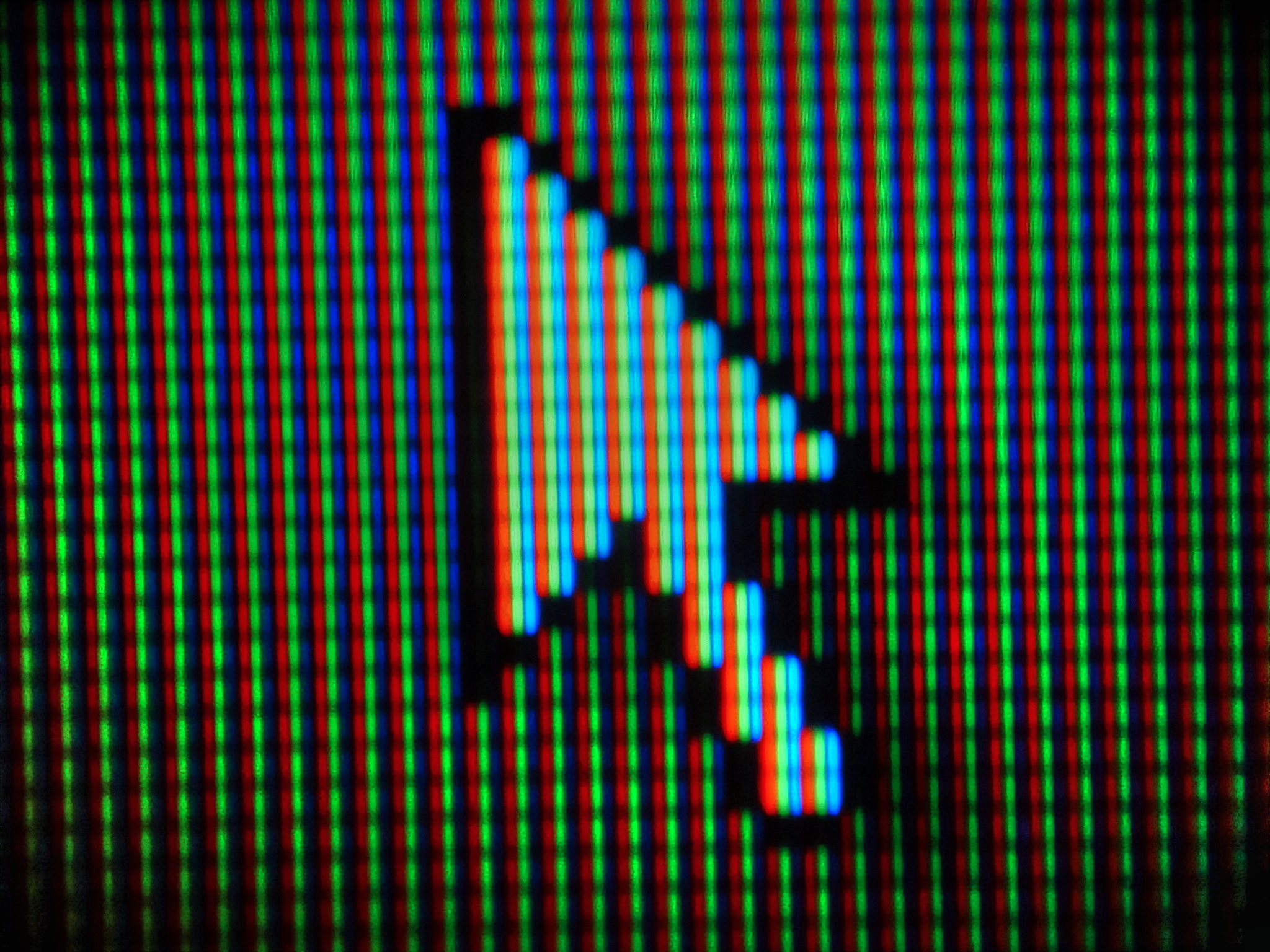 Mouse Arrow, Computer, Screen